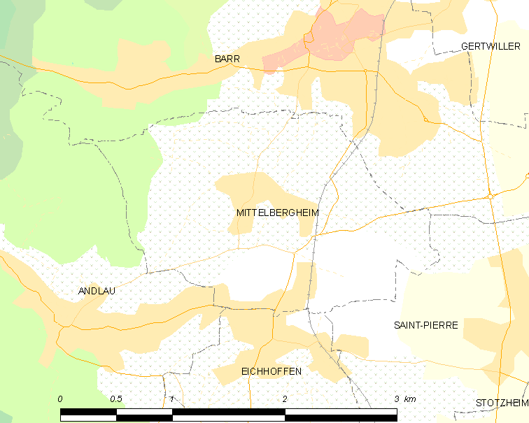 Map of French municipality